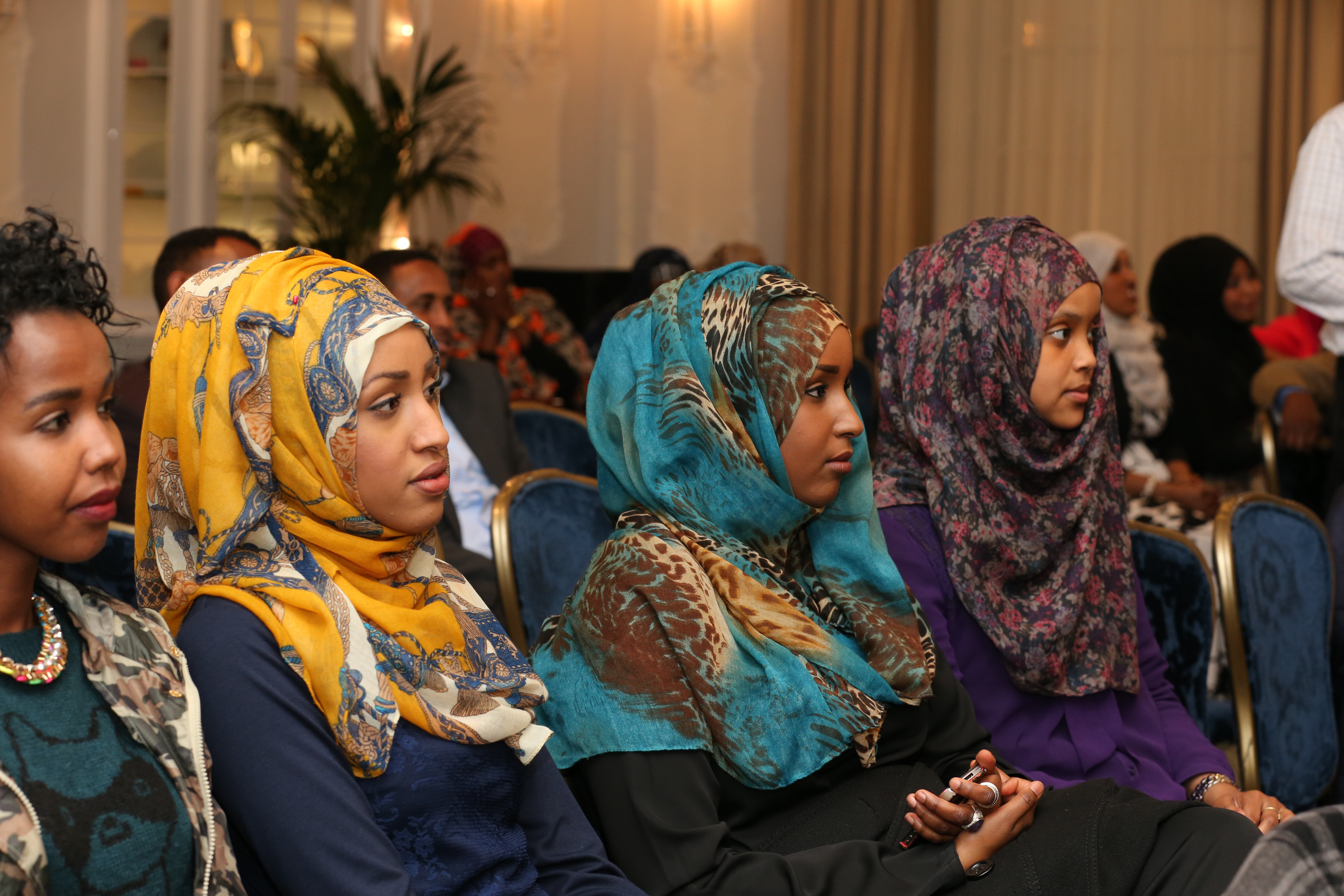 Young Somali women at a Somali community gathering in London with President of Somalia Hassan Sheikh Mohamud (May 2013).